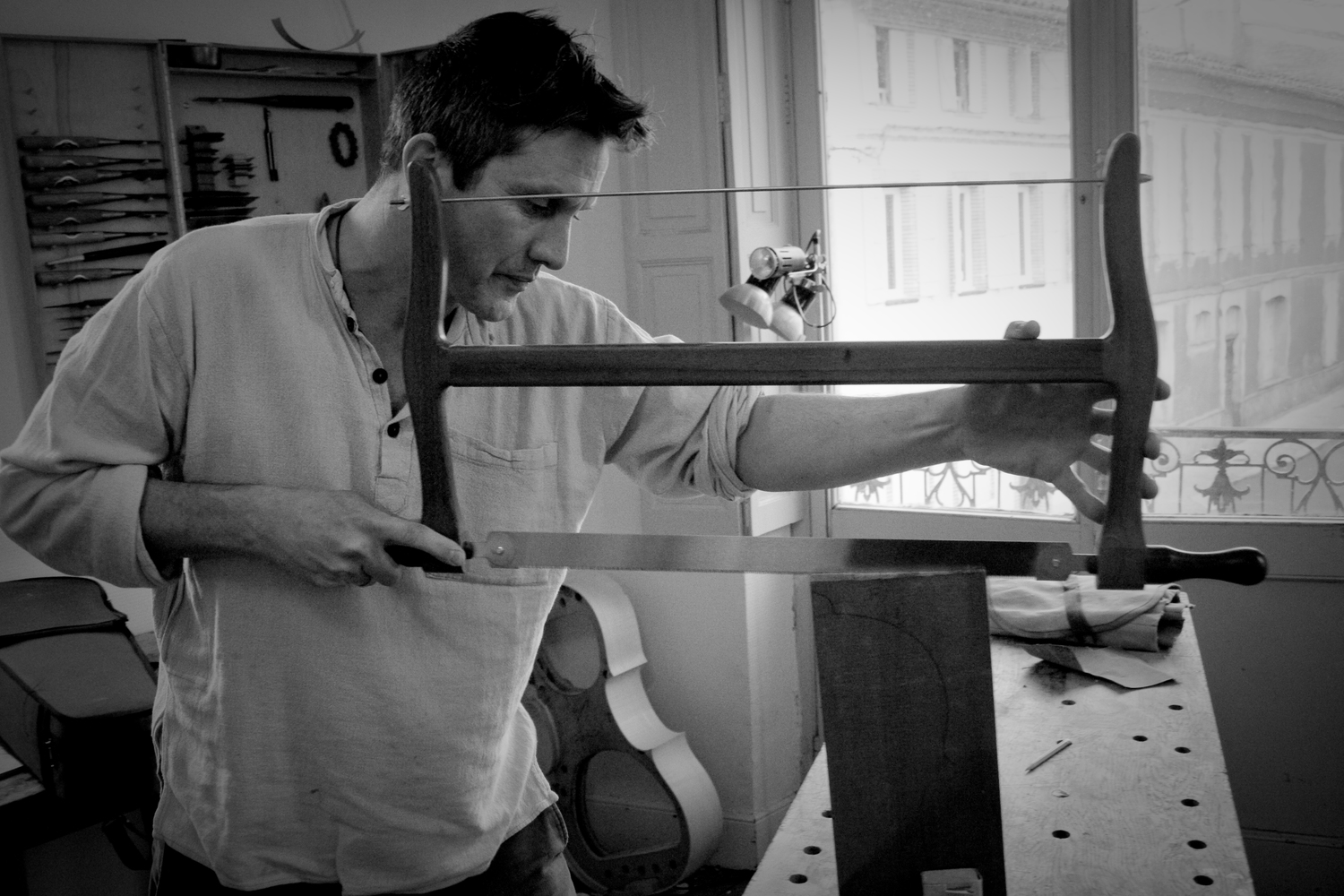 Luthier at work in his studio.